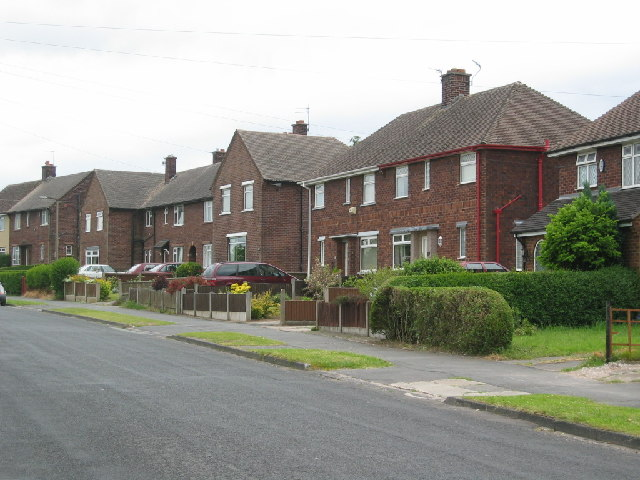 Post war council housing in Weaverham, Cheshire, now mostly owner-occupied